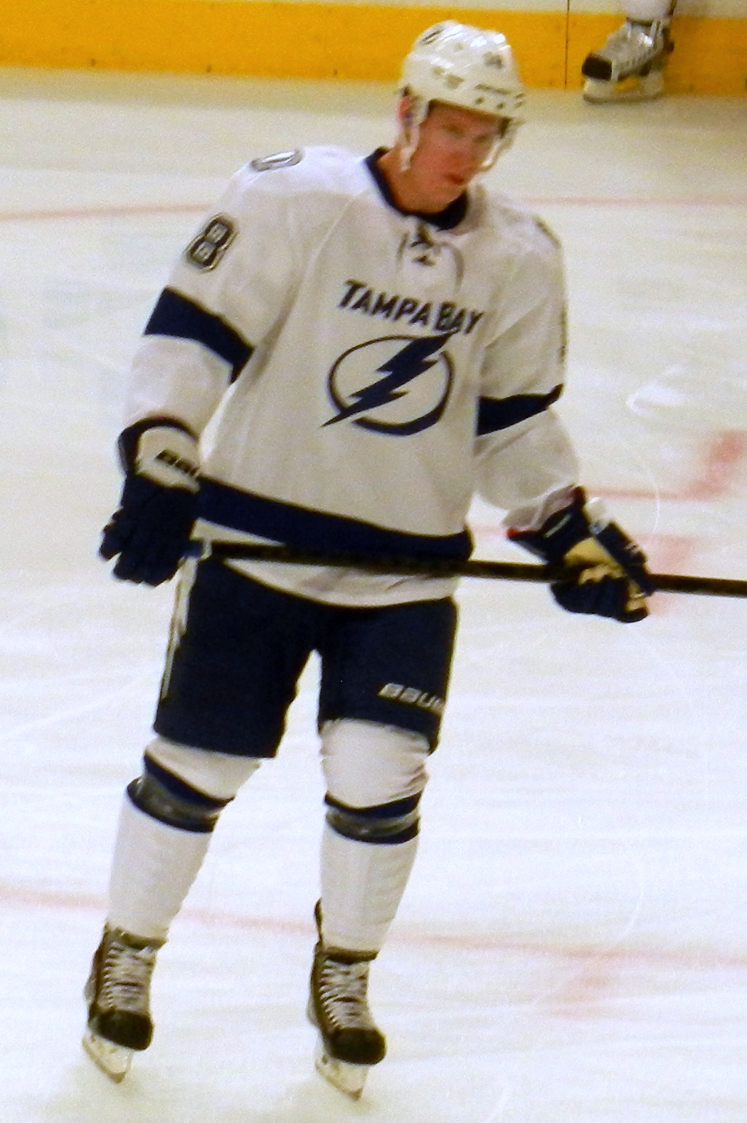 Ondrej Palat with the Tampa Bay Lightning during warm-up before a gamve vs. the Blackhawks at the United Center in Chicago